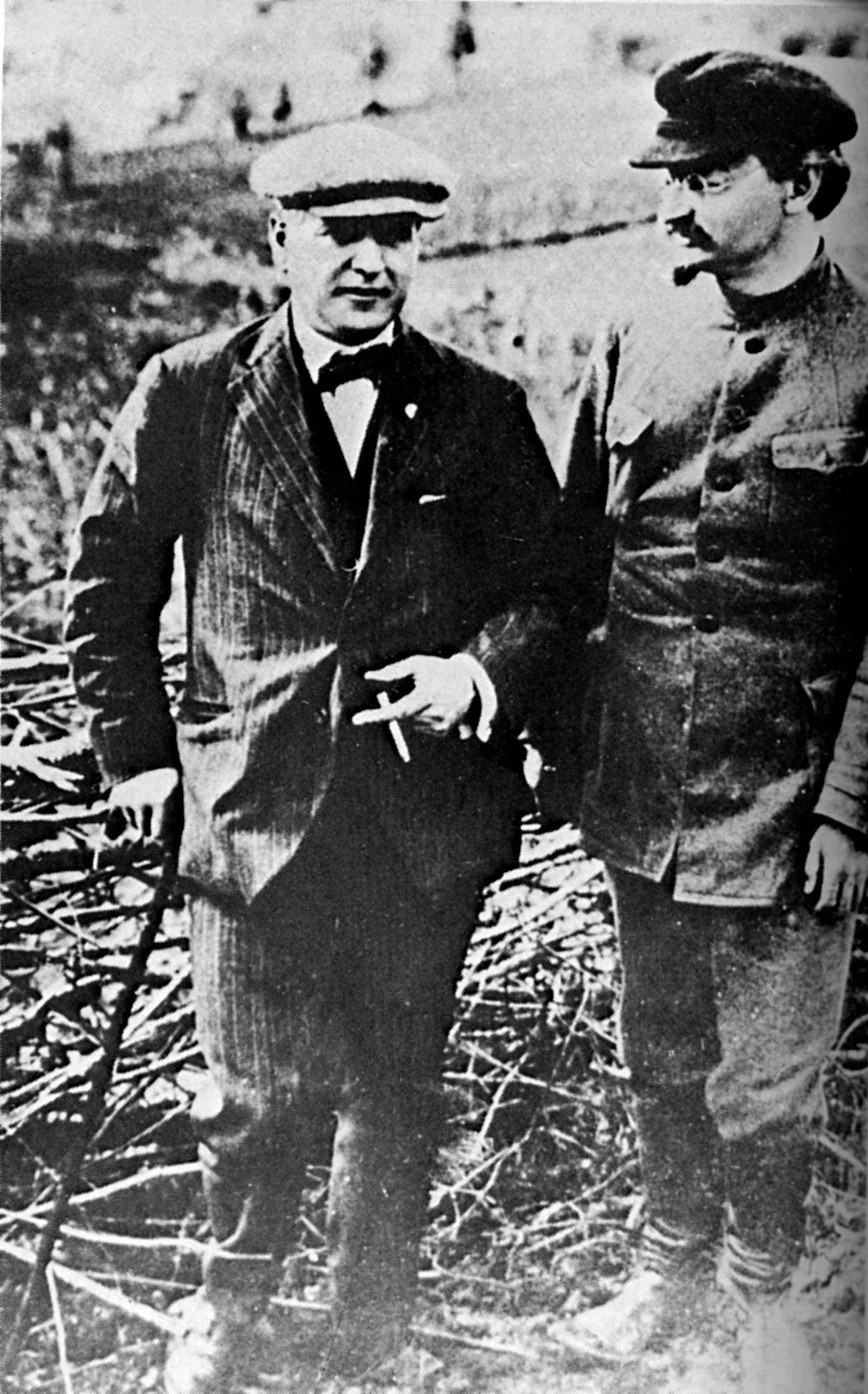 Christian Rakovsky with Leon Trotsky, circa 1924.